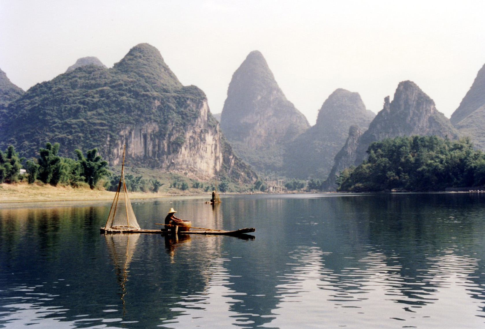 fishing on the Lijiang river, near Yangshuo